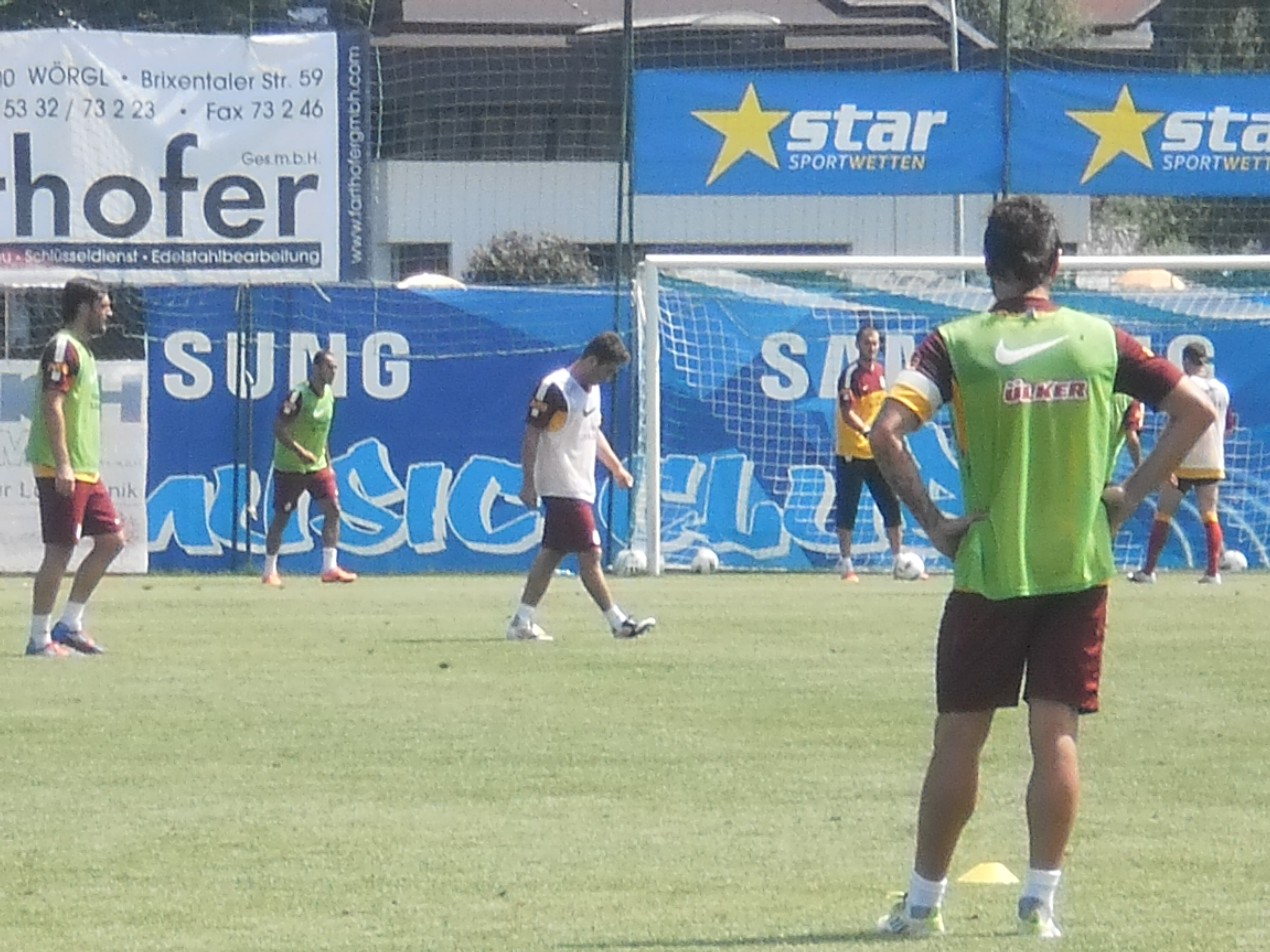 Galatasaray'ın Wörgl kampından bir fotoğraf